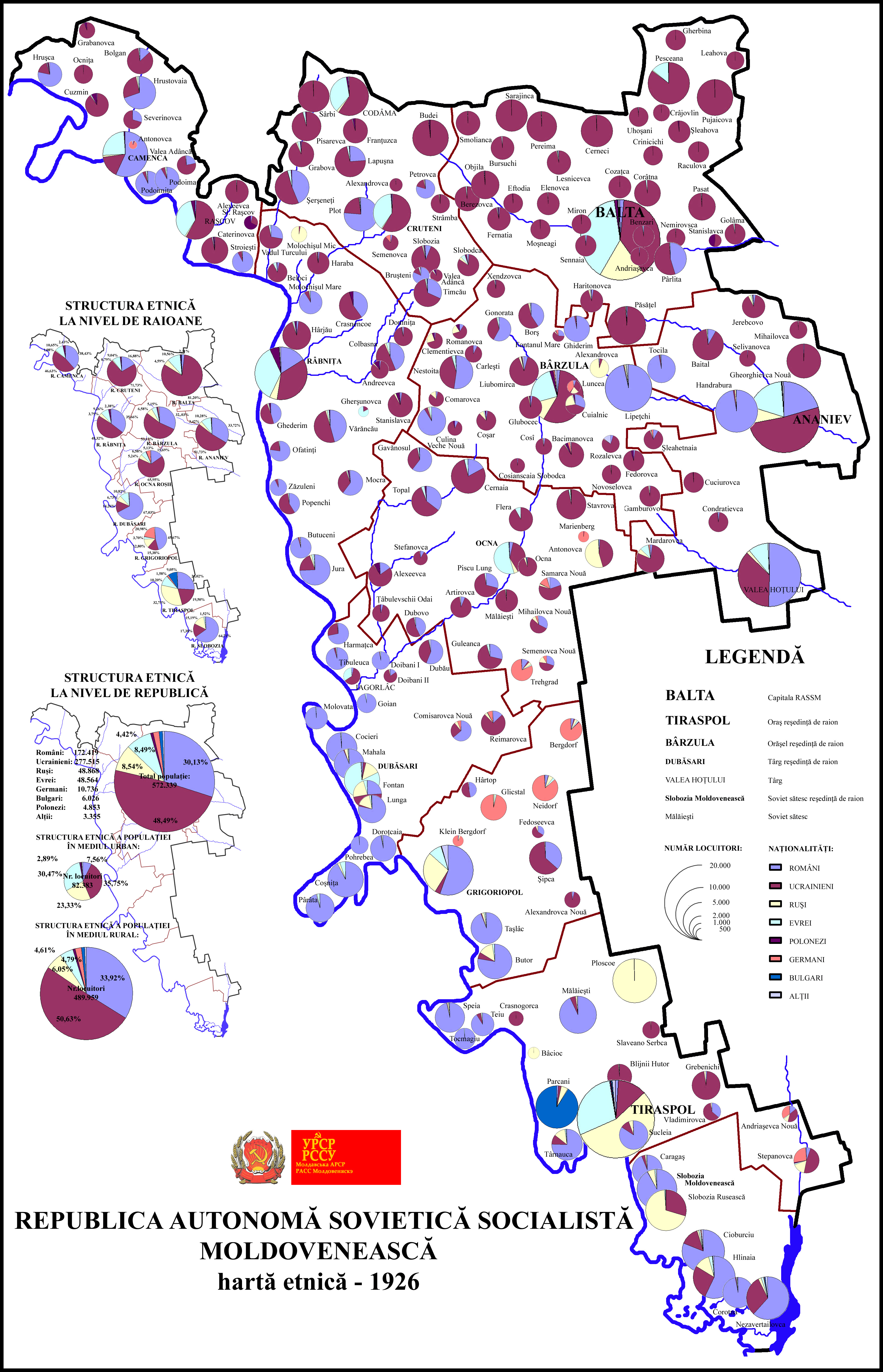 Ethnic map of the Moldavian Autonomous Soviet Socialist Republic, 1926; original file here